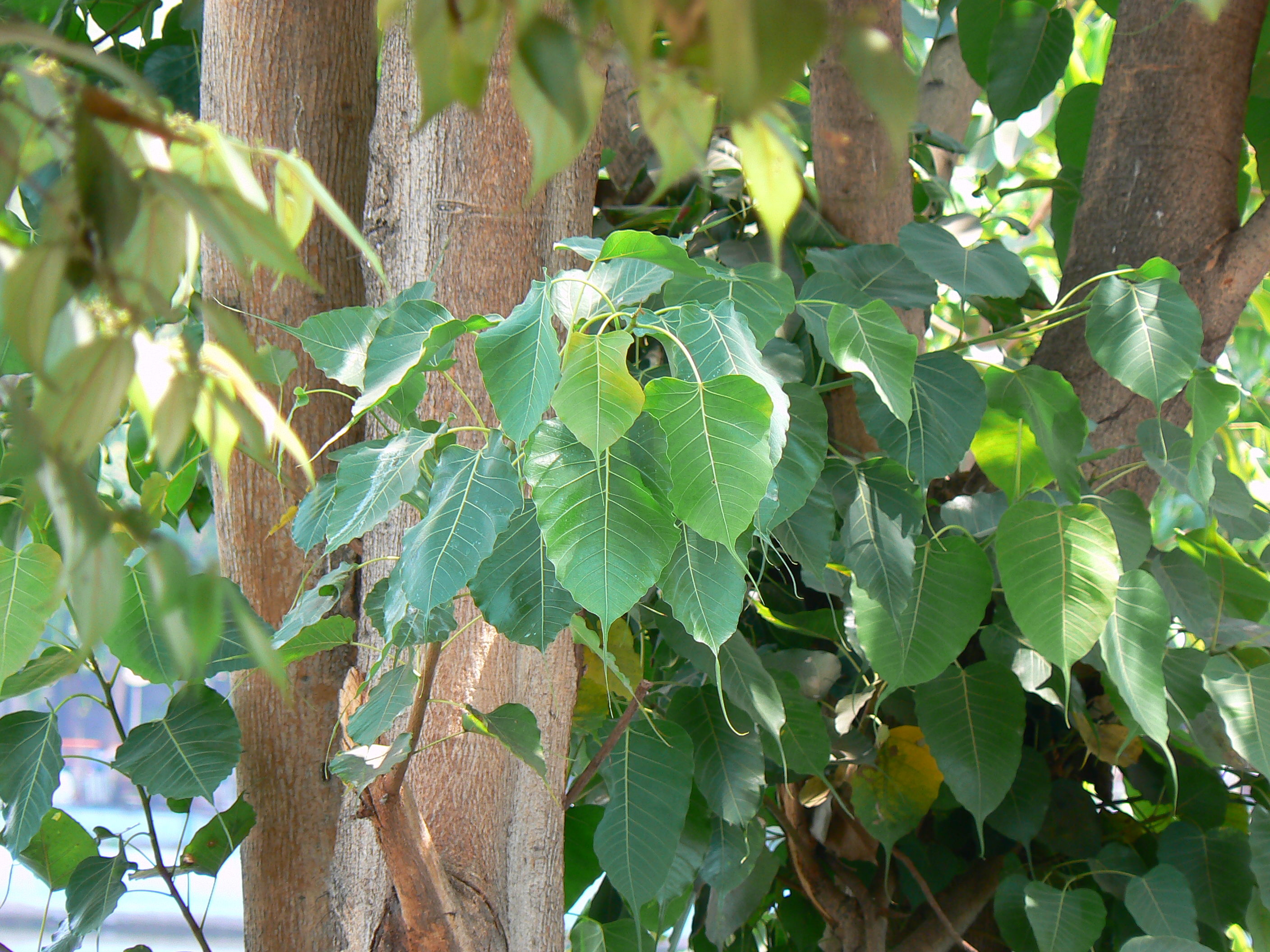 Moraceae (mulberry family) » Ficus religiosa L. FY-kus or FIK-us -- from Latin for Ficus carica, an edible fig ... Dave's Botanary re-lij-ee-OH-suh -- sacred ... Dave's Botanary commonly known as: holy fig tree, peepul, sacred fig tree • Assamese: আঁহত ahot, পিপ্পল pippol • Bengali: অশ্বত্থ asbattha • Gujarati: અશ્વત્થ asvattha, પીપળો piplo • Hindi: अस्वत्थ aswattha, पीपल pipal • Kannada: ಅರಳಿಮರ aralimara, ಅಶ್ವತ್ಥಮರ asvatthamara • Kashmiri: पिपल् pipal • Konkani: अश्वता रूकू ashvata ruku, पिंपळ pimpal • Malayalam: അരയാൽ arayal, പിപ്പലം pippalam • Manipuri: সনা খোঙনাঙ sana khongnang • Marathi: अश्वत्थ ashwattha, पिंपळ pimpala • Mizo: hmâwng • Nepali: पिपल pipal • Oriya: ଓସ୍ତ osta • Pali: अस्सत्थ assattha • Punjabi: ਪਿੱਪਲ pippal • Sanskrit: अश्वत्थ ashvattha, पिप्पल pippala • Tamil: அரசமரம் araca-maram, பிப்பலம் pippalam • Telugu: పిప్పలము pippalamu, రాగిచెట్టు ragichettu • Tibetan: a sba dtha • Tulu: ಅತ್ತಸಮರ attasamara • Urdu: پيپل pipal Native to: India, Nepal, Bangladesh, Myanmar, Pakistan, Sri Lanka, s-w China, Indochina; also cultivated References: Flowers of India • Wikipedia • ENVIS - FRLHT